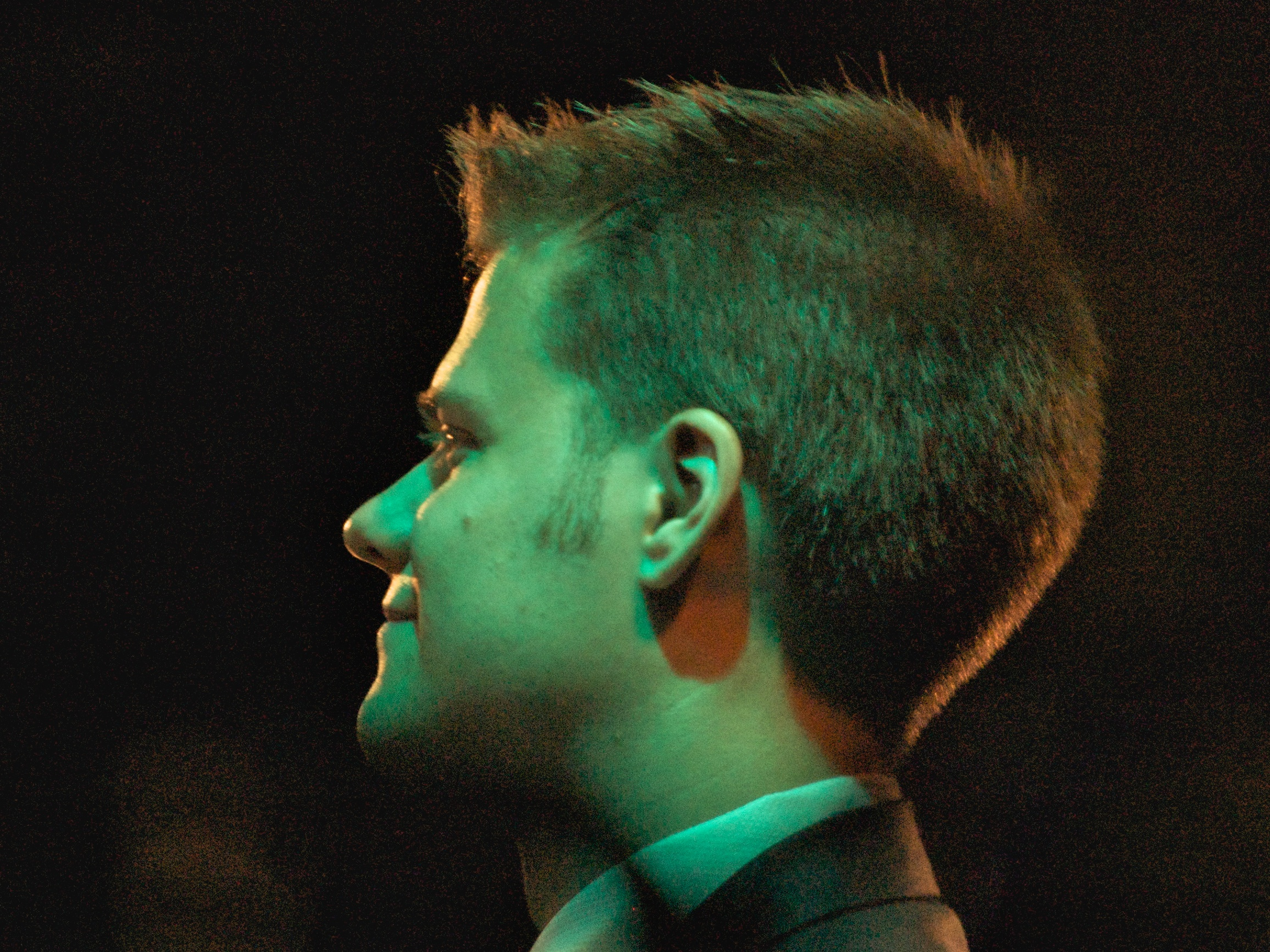 Picture of pianist Greg Anderson on stage at a public event in Barbados, Spring 2009